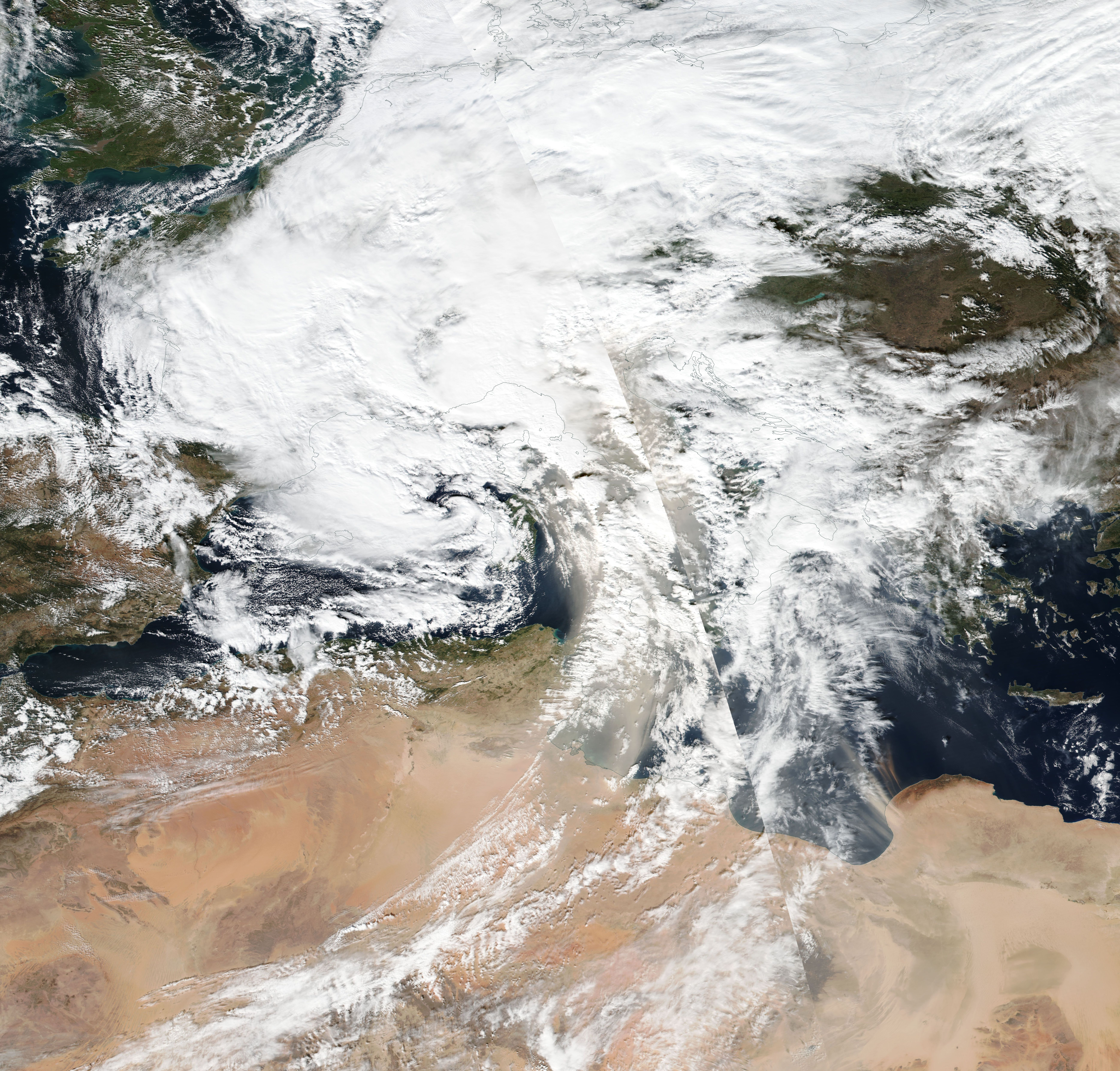 Storm Adrian, the sixth named storm of the 2018–19 European windstorm season, over the western Mediterranean Sea on 29 October 2018.